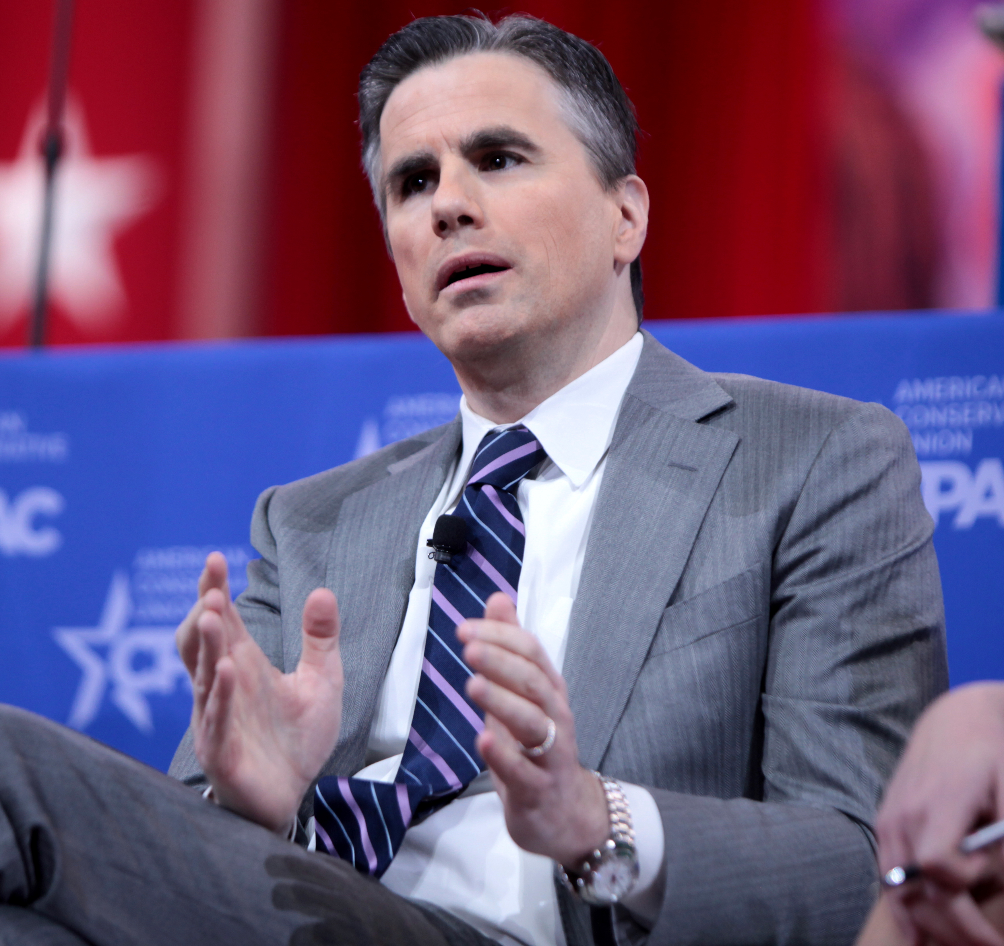 Tom Fitton at the Conservative Political Action Conference 2015